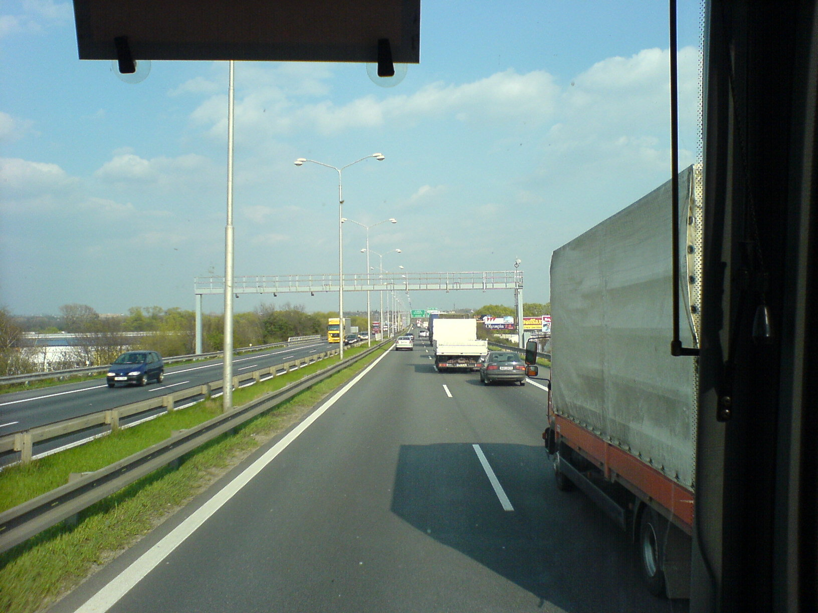 Highway D1